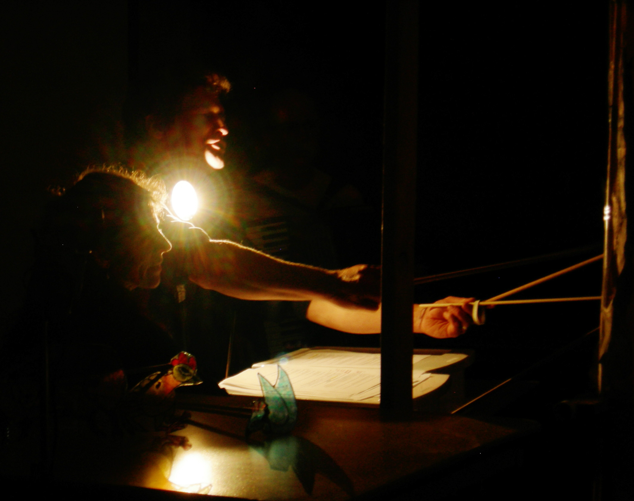 Backstage as Craig Jacobrown puppet troupe presents a child-friendly Karagöz and Hacivat shadow play at Turkfest, Center House, Seattle Center, Seattle, Washington, USA.